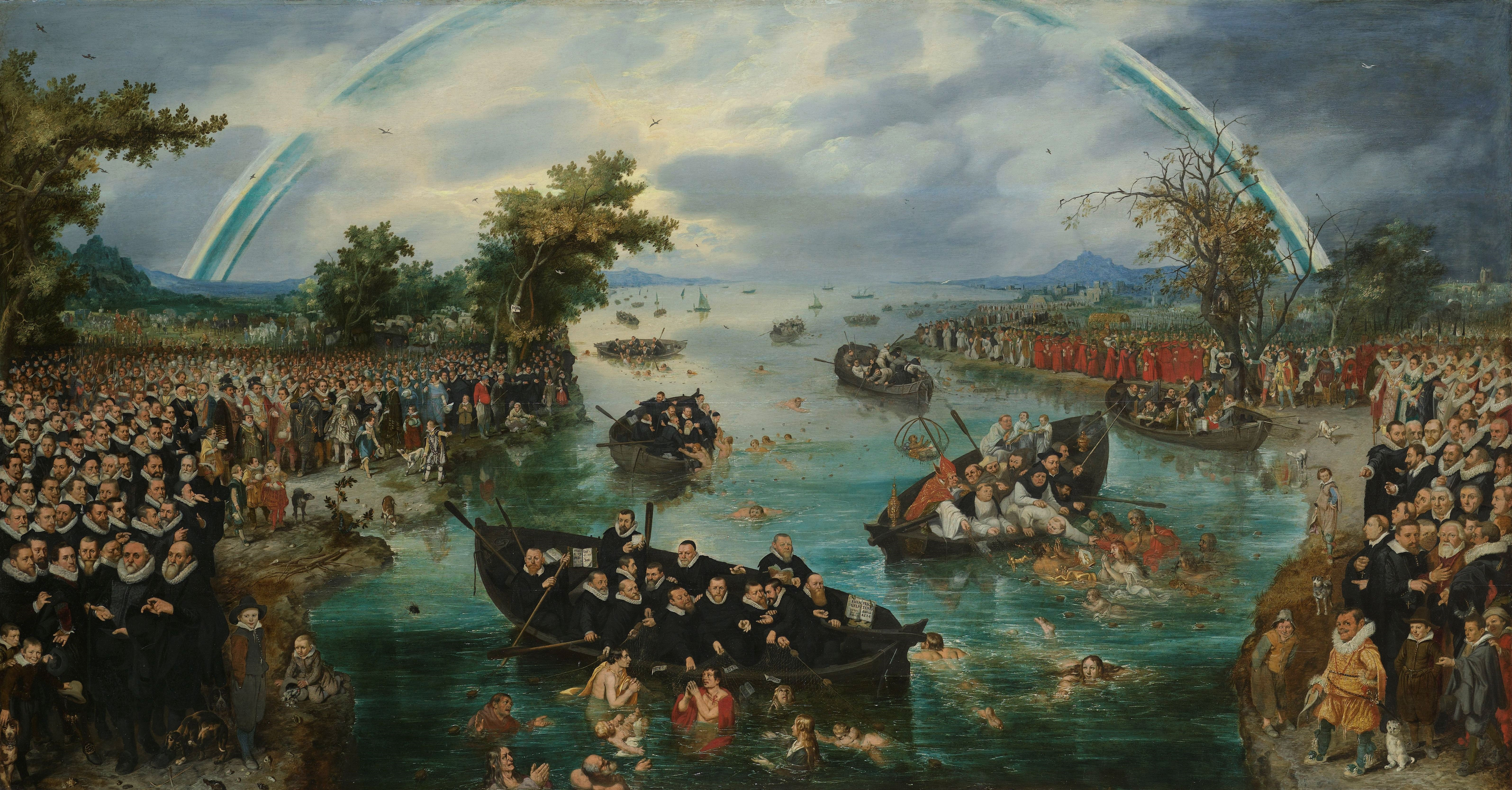 Fishing for souls: allegory of the jealousy between the various religious denominations during the Twelve Years Truce (1609-1621) between the Dutch Republic and Spain. A river landscape with large numbers of people standing on either side of the river. In the river are several rowing boats. In the sky a rainbow is visible. The group of people on the left side are protestants with their patrons, the prices of Orange, Maurice and Frederick Henry, Frederick V of the Palatinate, James I of England and a youthful Louis XIII of France with his mother, Marie de' Medici. The rowing boat on the foreground contains protestant 'fishermen' with fishing nets marked with the words Fides, Spes and Charitas (Faith, Hope and Love). The group of people on the right are catholics with their patrons, Albert and Isabella, general Ambrosio Spinola and the pope being carried by cardinals. In the catholic boat priest are 'fishing', while being overseen by a bishop.